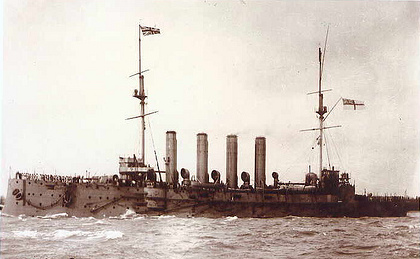 The British cruiser HMS Spartiate